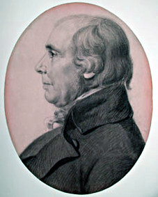 Leven Powell, US Representative from Virginia